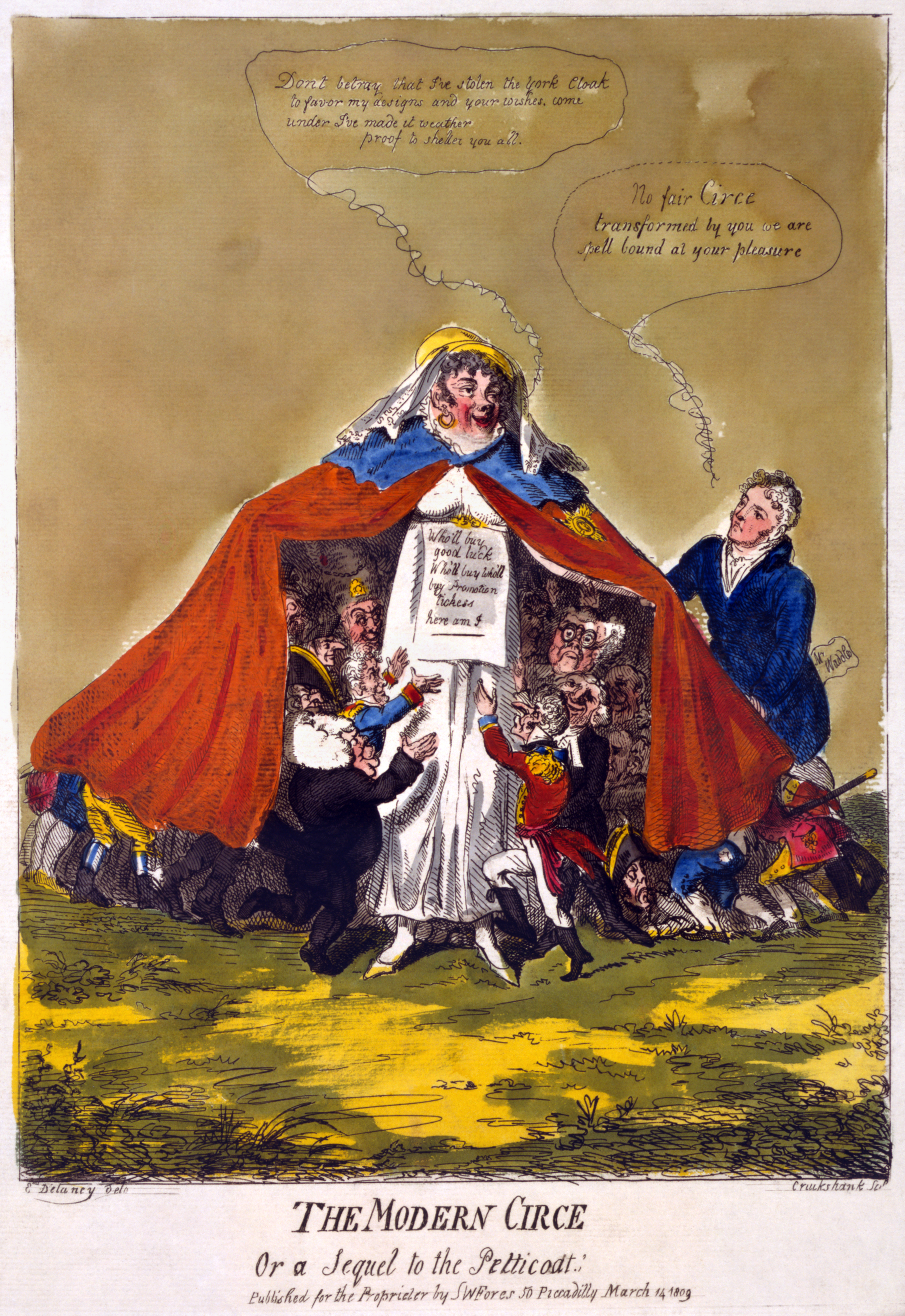 "The modern Circe or a sequel to the petticoat": " Cartoon shows Mrs. Mary Anne Clarke, wearing the Duke of York's military cloak, extending it to cover a crowd of miniature soldiers, civilians and clergymen clustering around her with outstretched arms; Mr. Waddle (Mr. Wardle), standing to the side, gazes at her and declares his fascination."